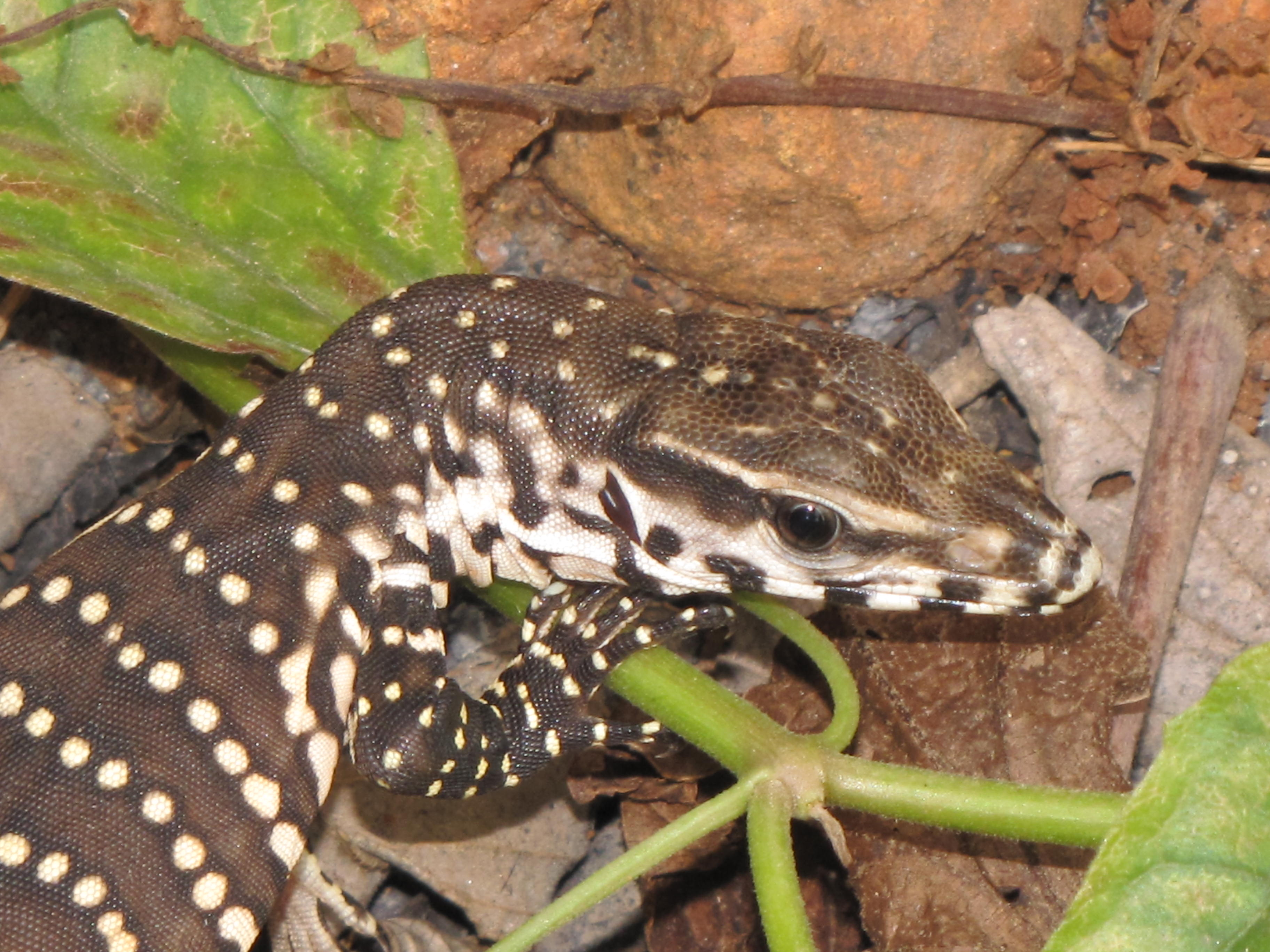 A Juvenile Monitor Lizard (Varanus bengalensis) out on the hunt